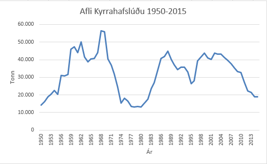 Afli Kyrrahafsludu